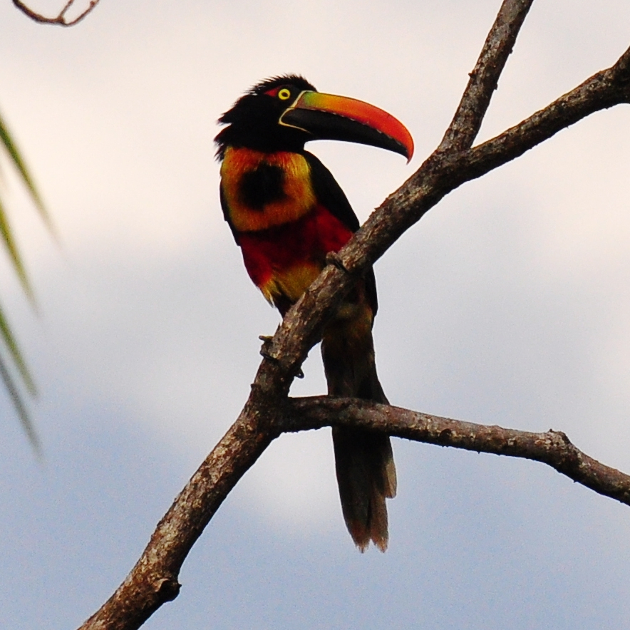 A Fiery-billed Aracari in Puntarenas, Costa Rica.